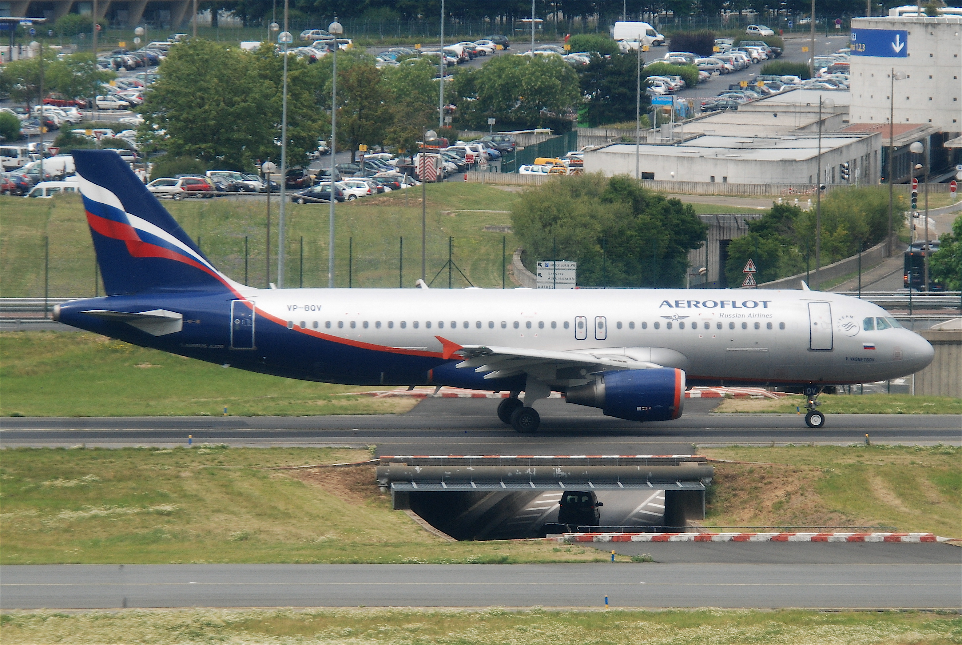 Aeroflot Airbus A320-214; VP-BQV@CDG;10.07.2011/605gl